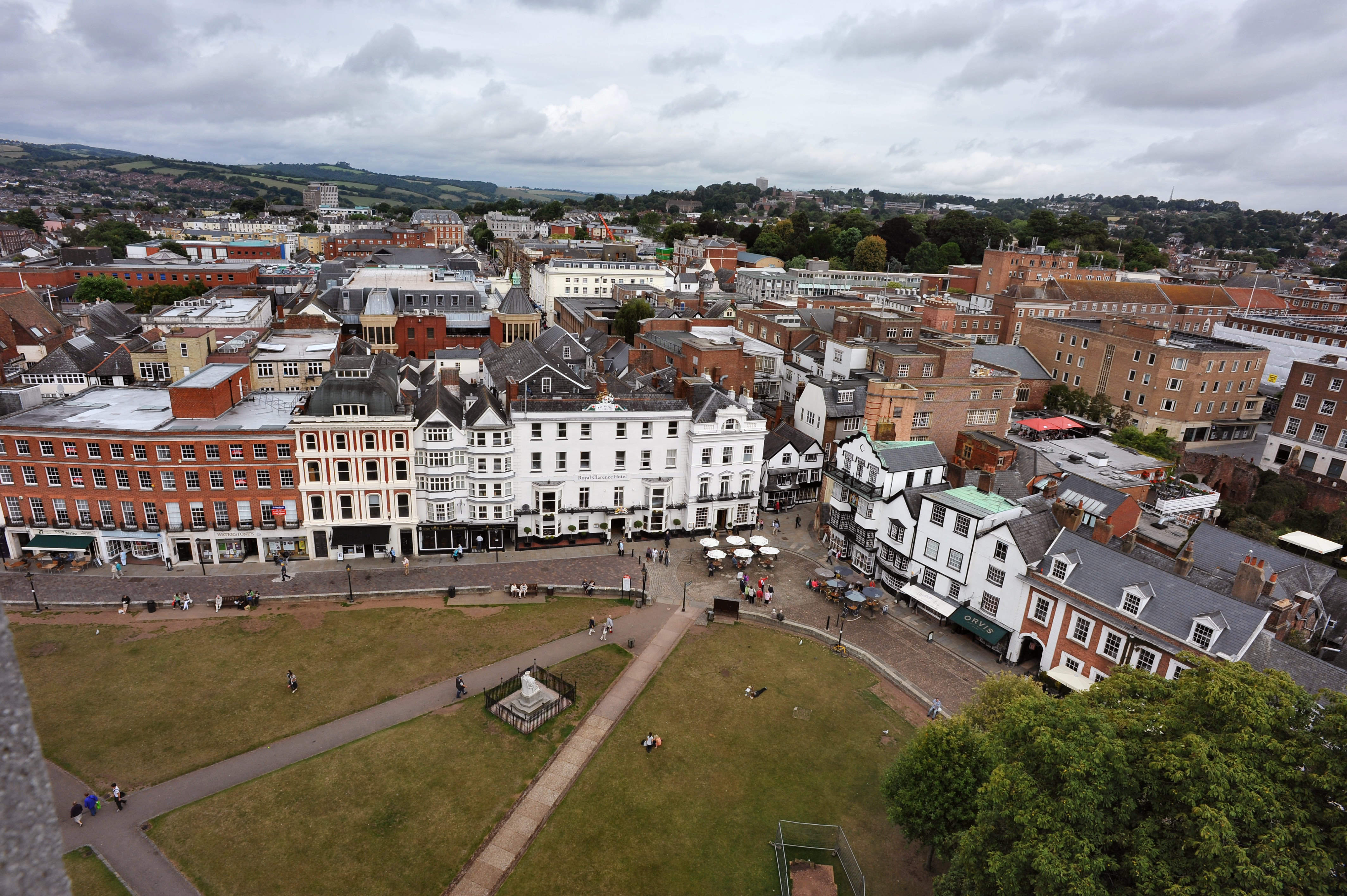 A view of the Royal Clarence Hotel, Exeter, Devon, England taken from the north tower of Exeter Cathedral in August 2010. Shows the hotel in relation to the surrounding buildings, and also some of the complexity of the roof spaces that contributed to the spread of the fire that destroyed the hotel and adjacent buildings in October 2016.